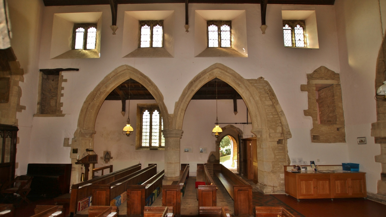 South aisle of St Mary's parish church, Lower Heyford, Oxfordshire, seen from the nave. On the left is the upper opening of the stairs to the former rood loft. On the right is a later opening to a former west gallery.